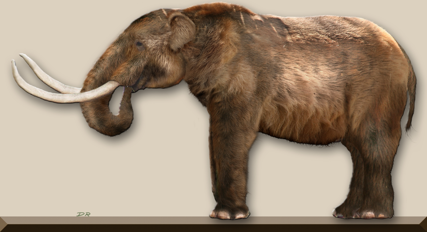 This is a picture of a mastodon that I made in adobe photoshop.